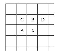 Three neighboring samples around the sample to be predicted. PNG's filter can use the data in pixels A, B, and C to predict the value for X.